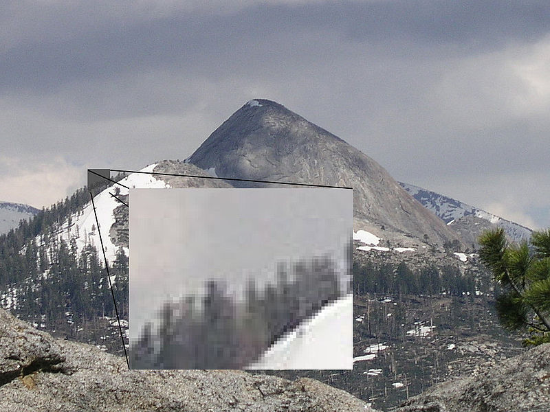 Yosemite North Dome, with blow-up of tree line